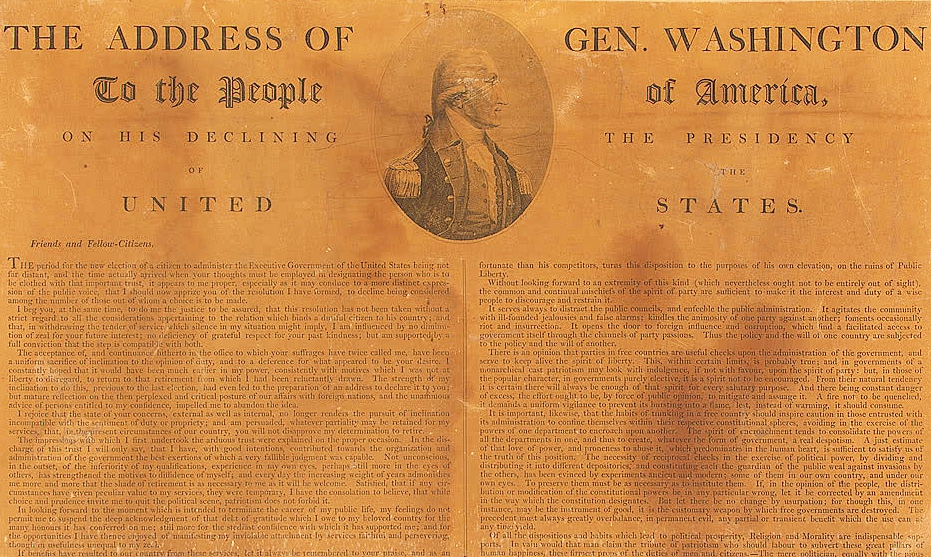 Broadside, Washington's Farewell Address, page one